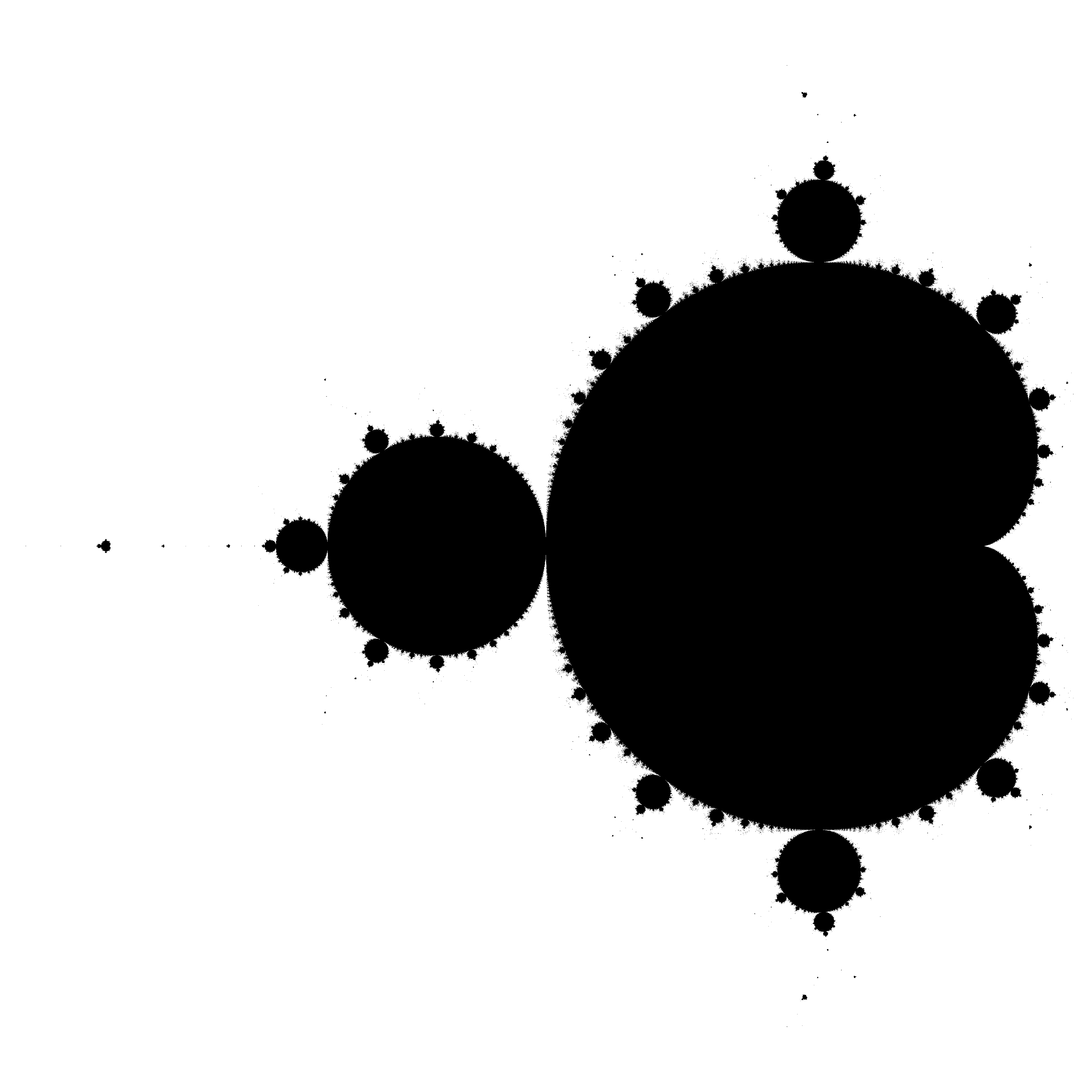 Mandelbrot graphed to 8000 by 8000 pixels in black and white.